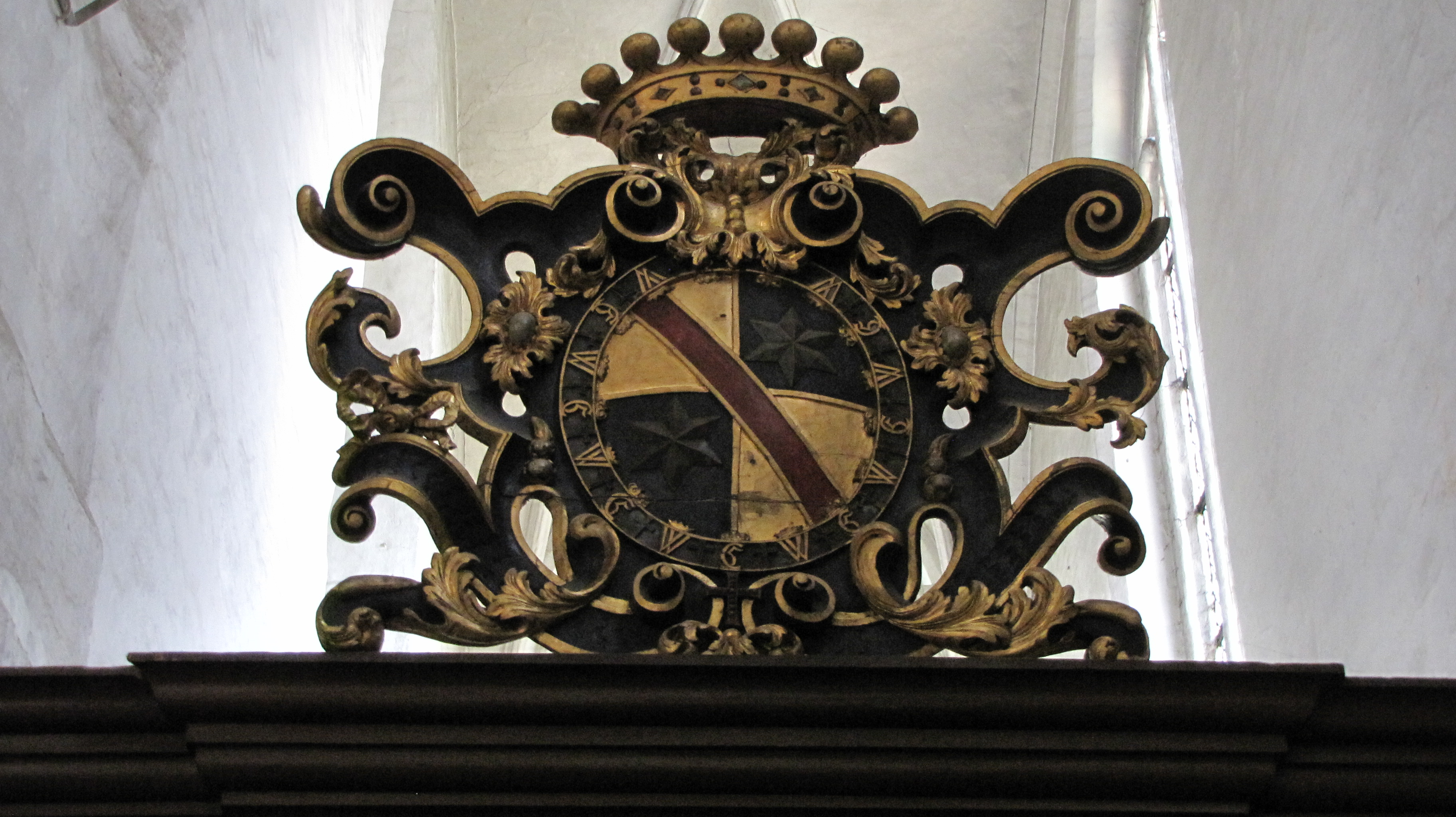 Coat of arms of Christoph Gensch von Breitenau, from his burial chapel in St. Aegidien, Lübeck